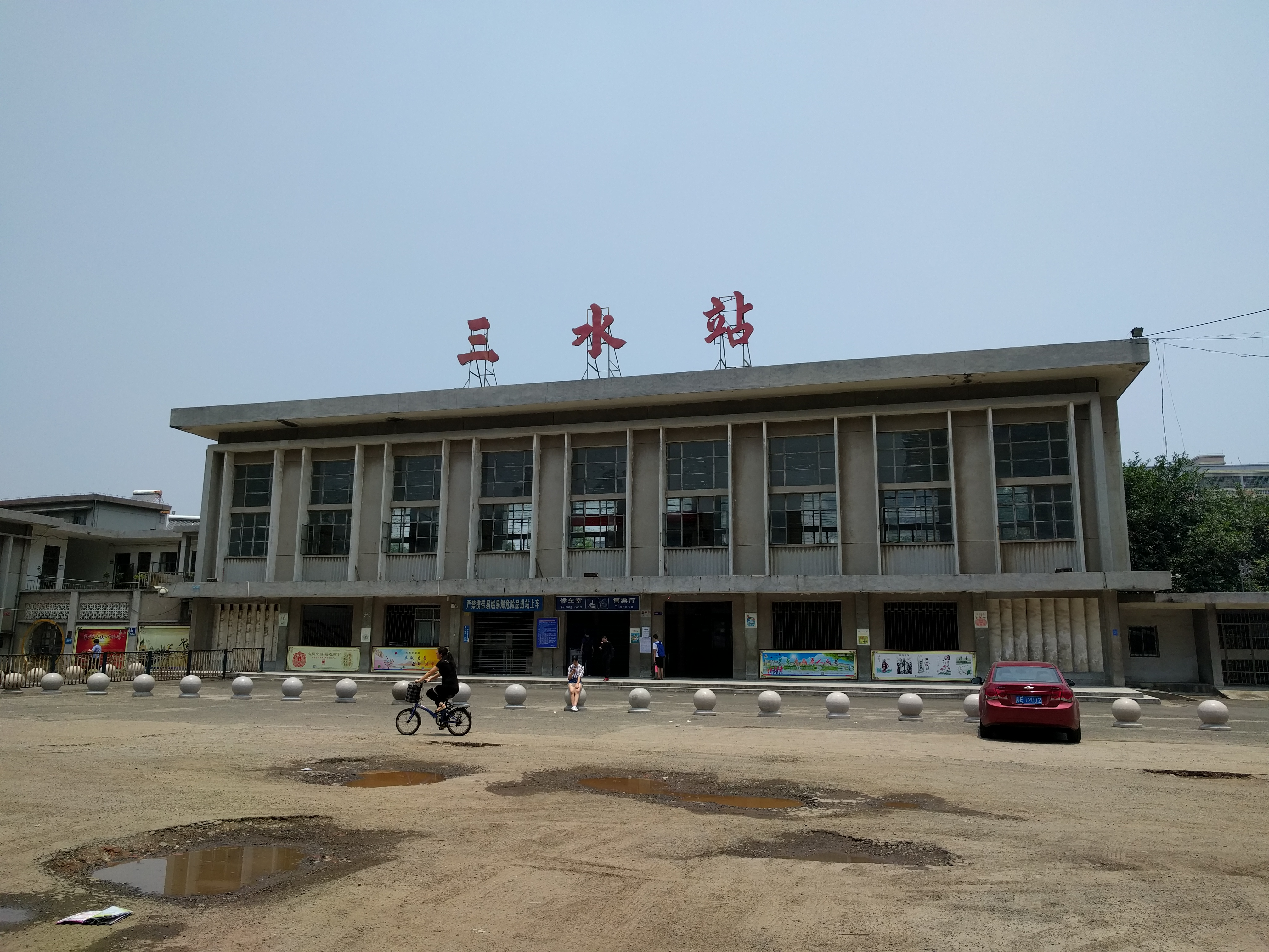 Sanshui railway station in Guangdong Province, China